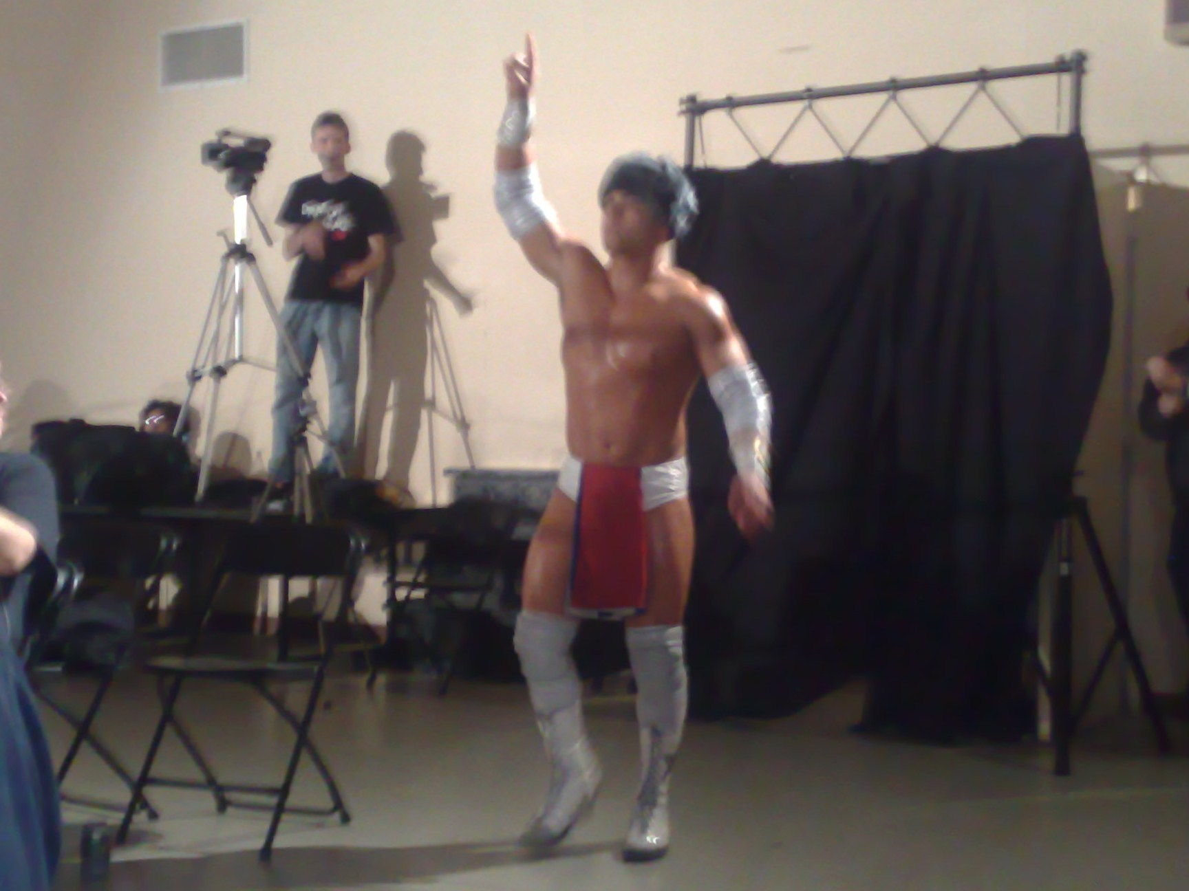 Russian professional wrestler Alex Koslov enters the arena at a Pro Wrestling Guerrilla show on January 6, 2008.